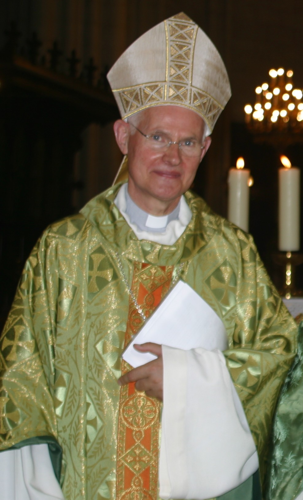 bishop